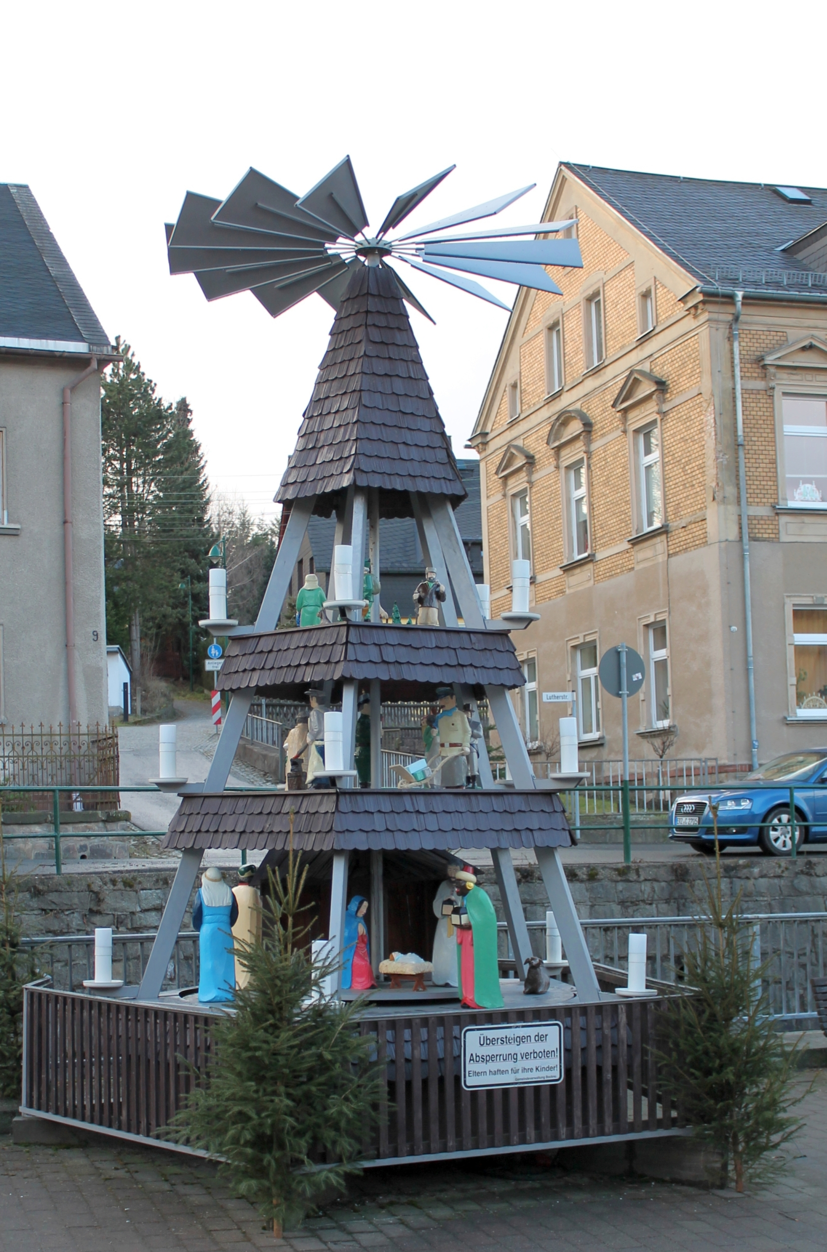 Outdoor christmas pyramid in Bockau, Saxony, Germany.